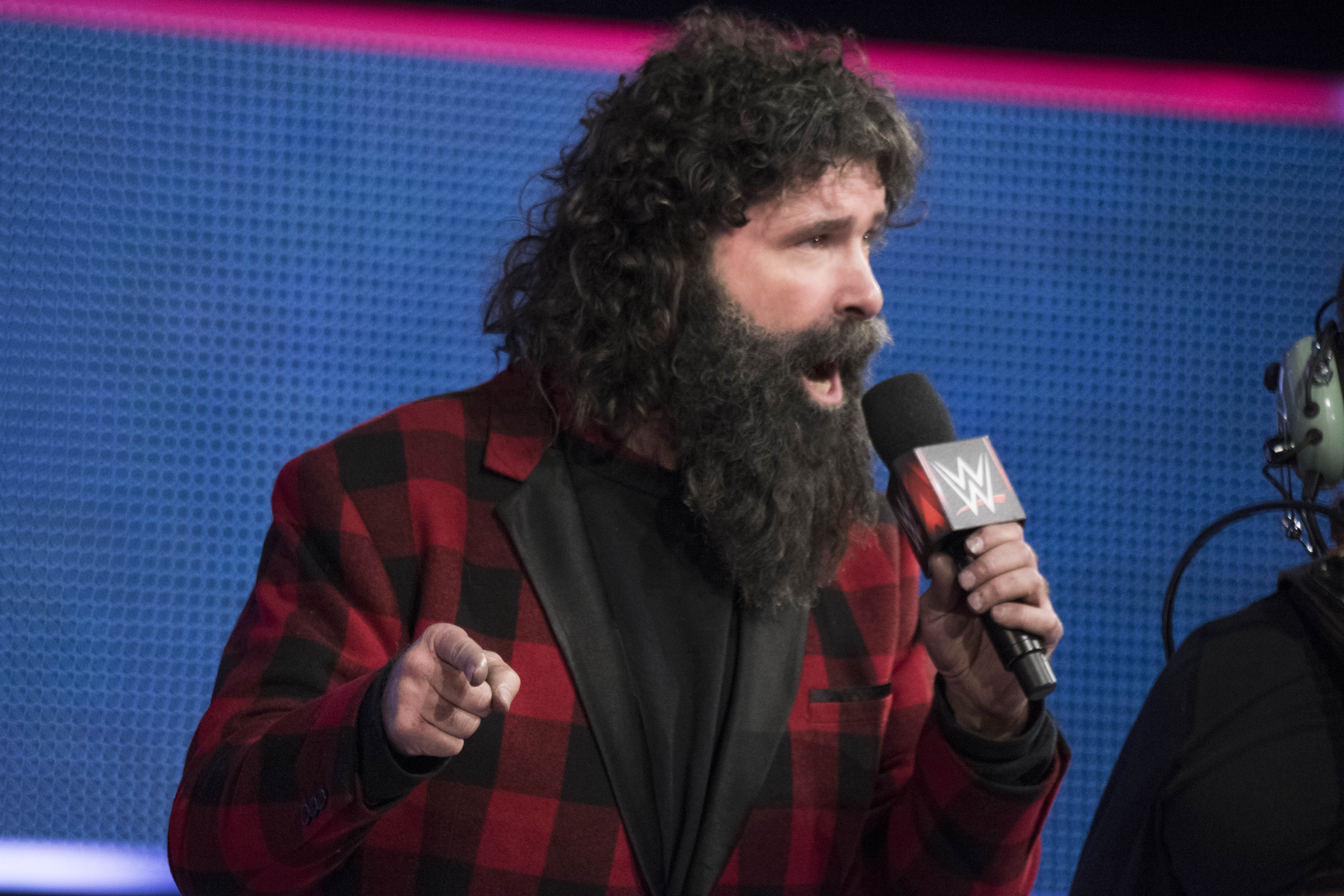 Mick Foley at WWE Tribute the Troops show in December 2016